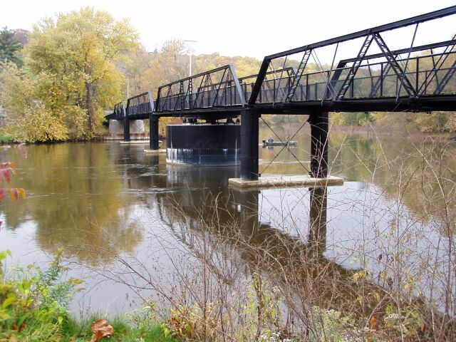 Old Allegan Road across the Kalamazoo River